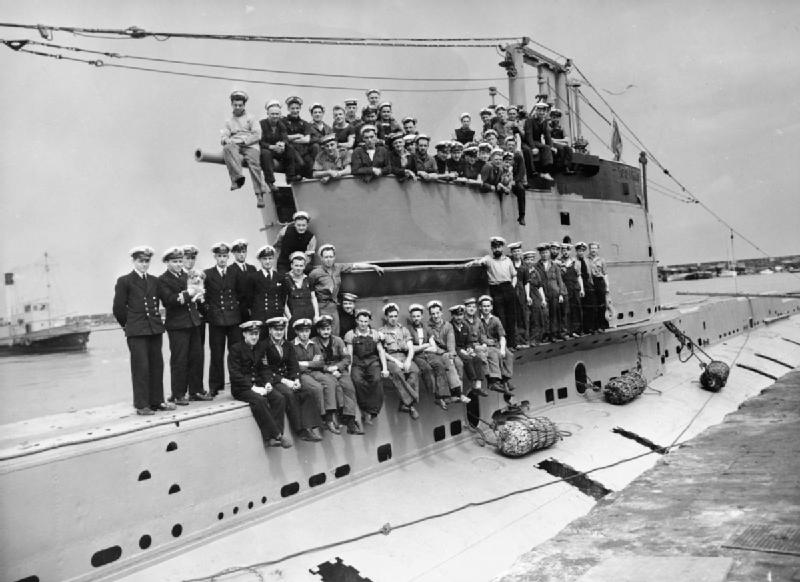 HMSM Osiris Crew lined around the deck.